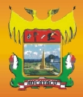 escudo de aucayacu